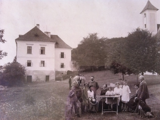 Rottenhof around 1900